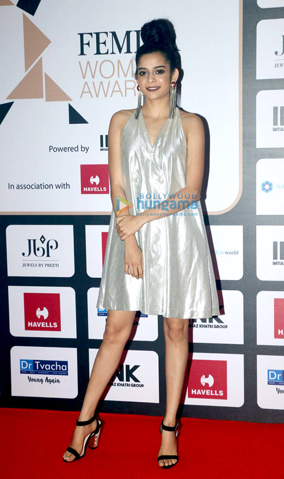 Palkar at the ‘Femina Women Award 2017’ in Mumbai